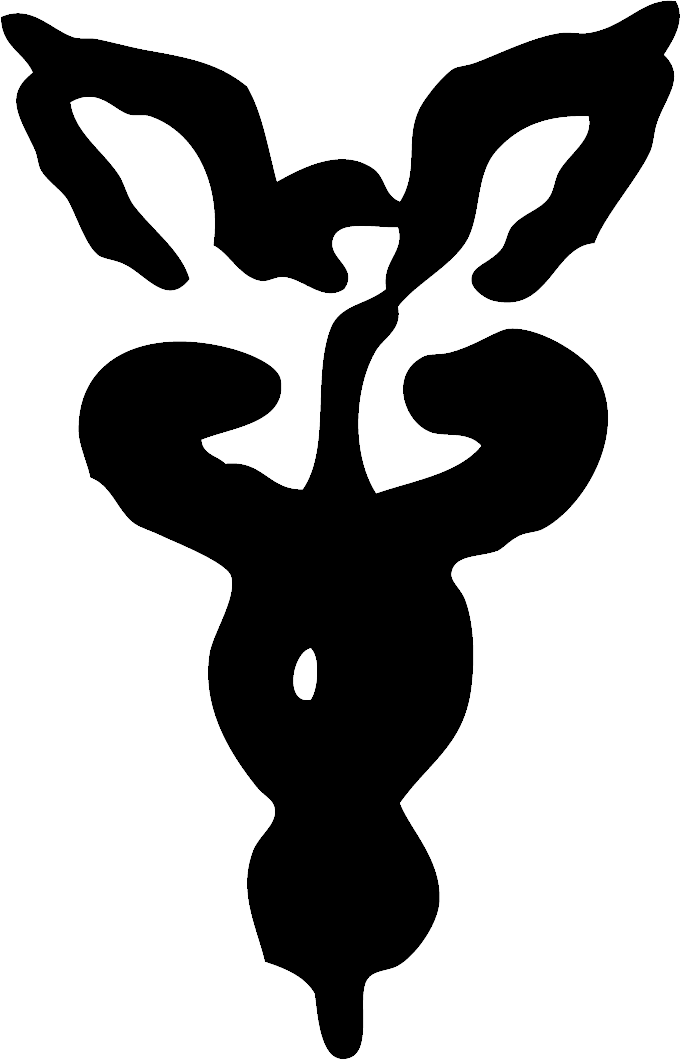 Mint mark of the Royal Dutch Mint in Utrecht.